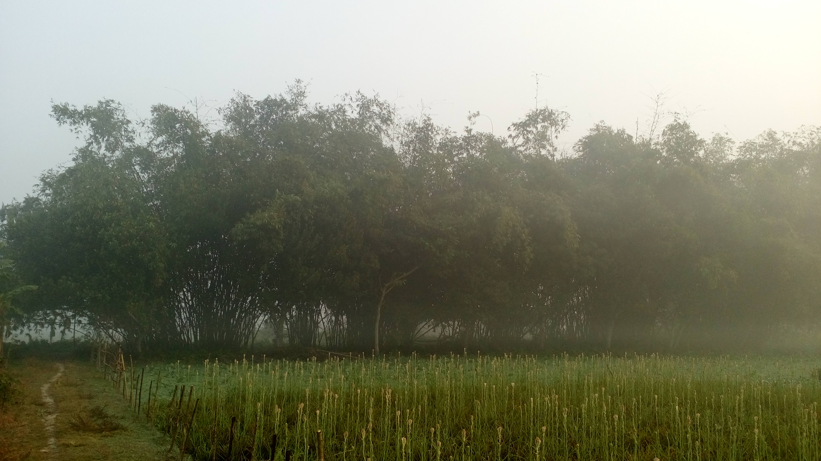 nokari rural path